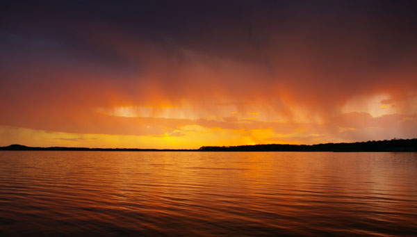 A dark sunset over the Sydenham Inlet at Bemm River.